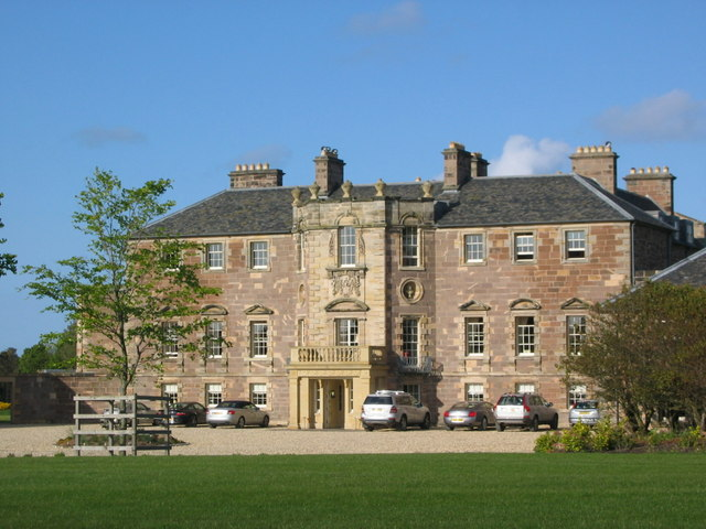 Archerfield House Archerfield House after restoration, now used as a hotel.